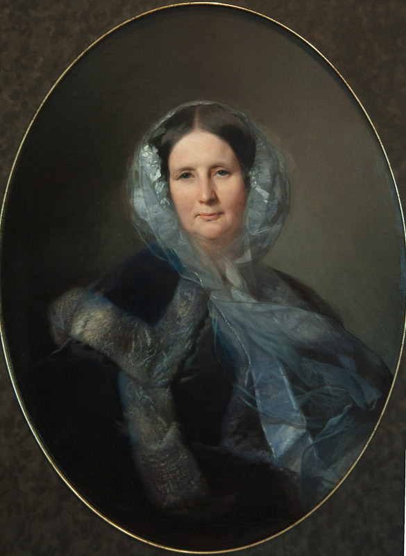 Portrait of Teofila Petrovna Golitsyna